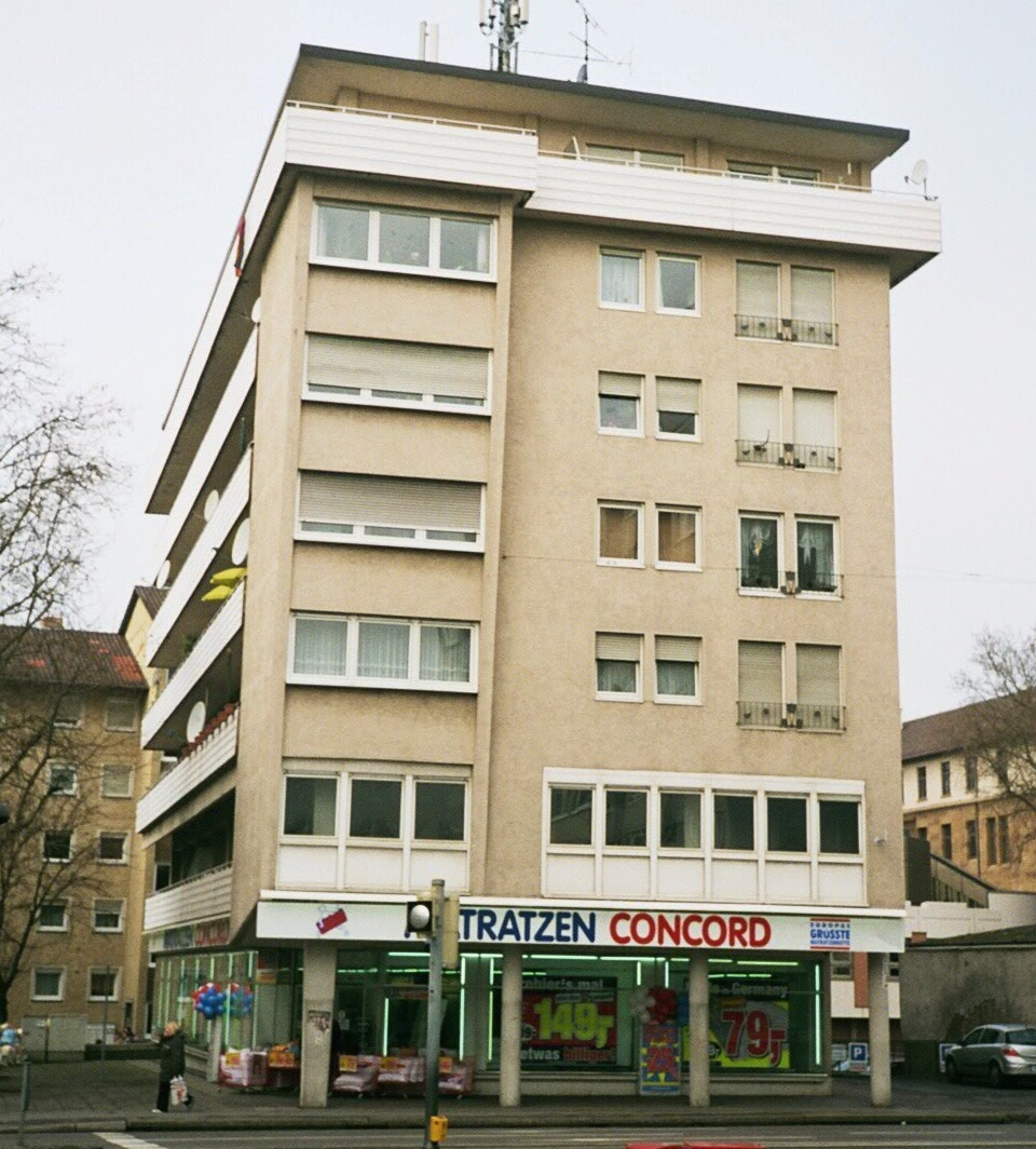 Heilbronn